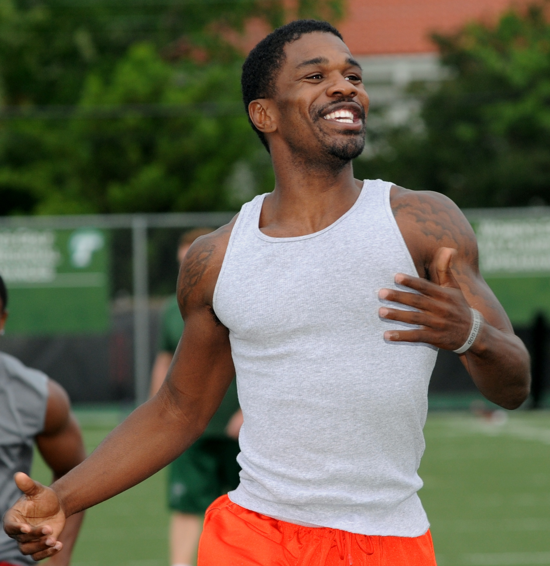 New Orleans Saints cornerback Randall Gay practices at Tulane University in 2011.